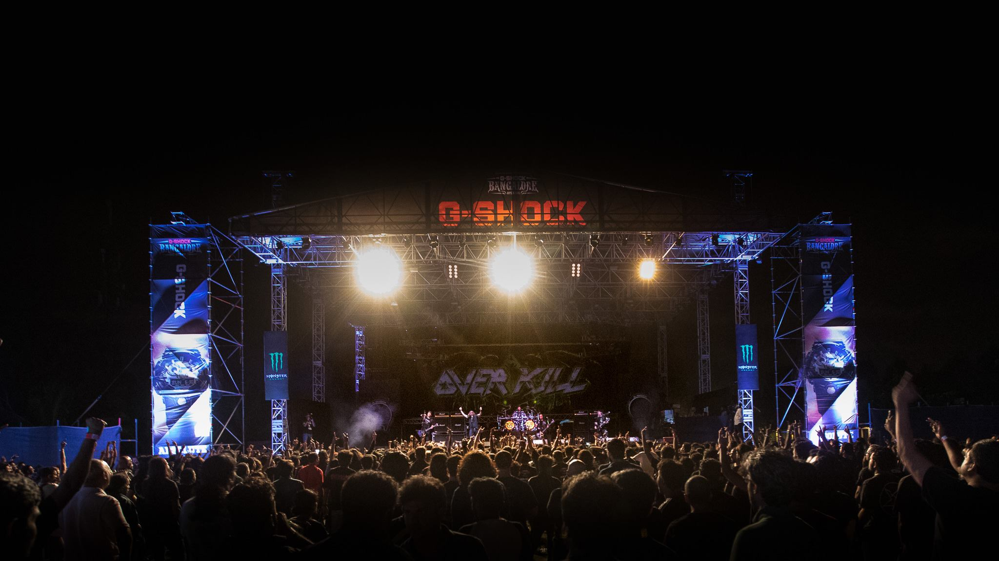 Overkill performing at BOA 2018